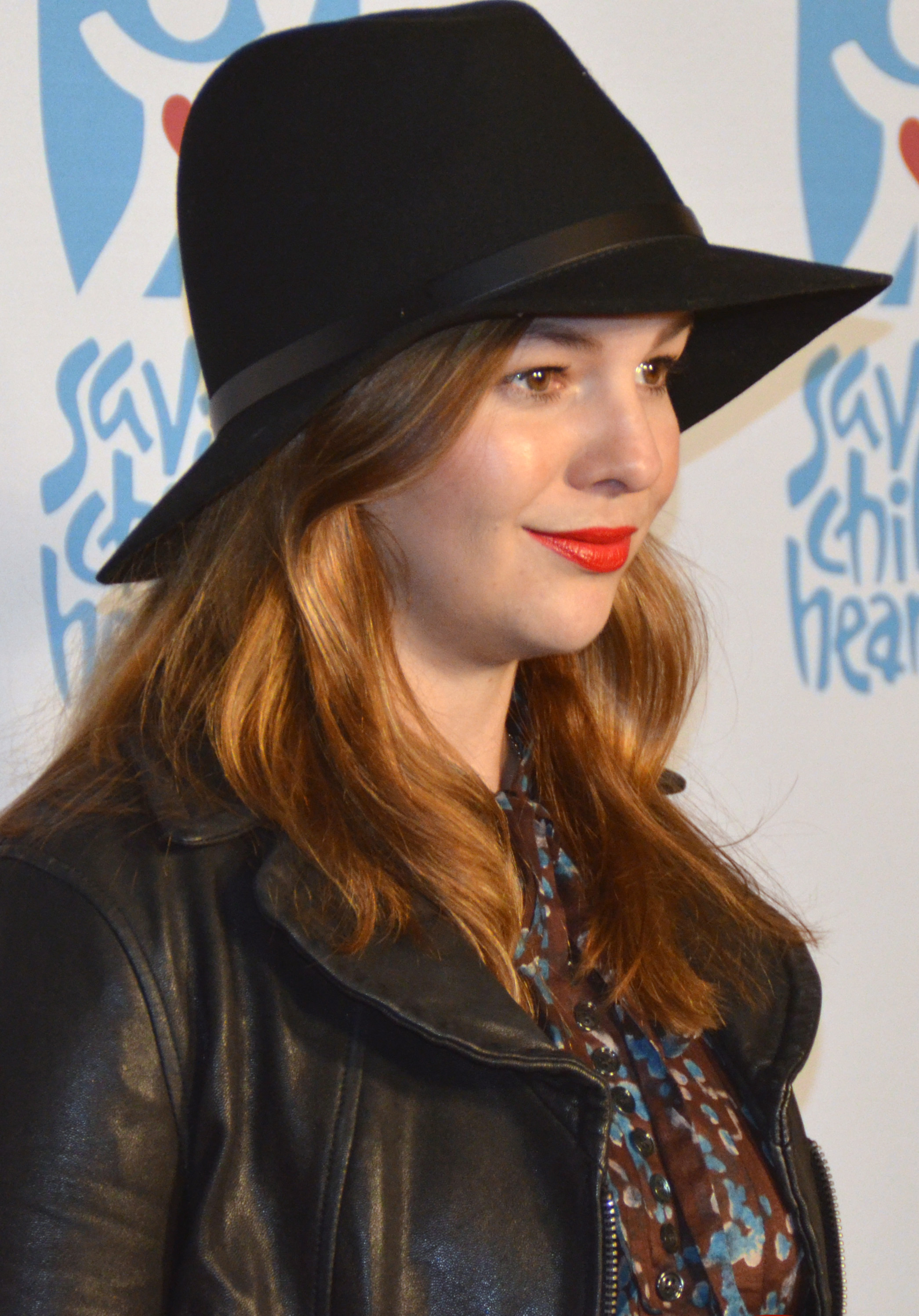 Amber Tamblyn at the Save A Child’s Heart Celebration & Honorary Ceremony in at Sony’s The Commissary in Culver City.